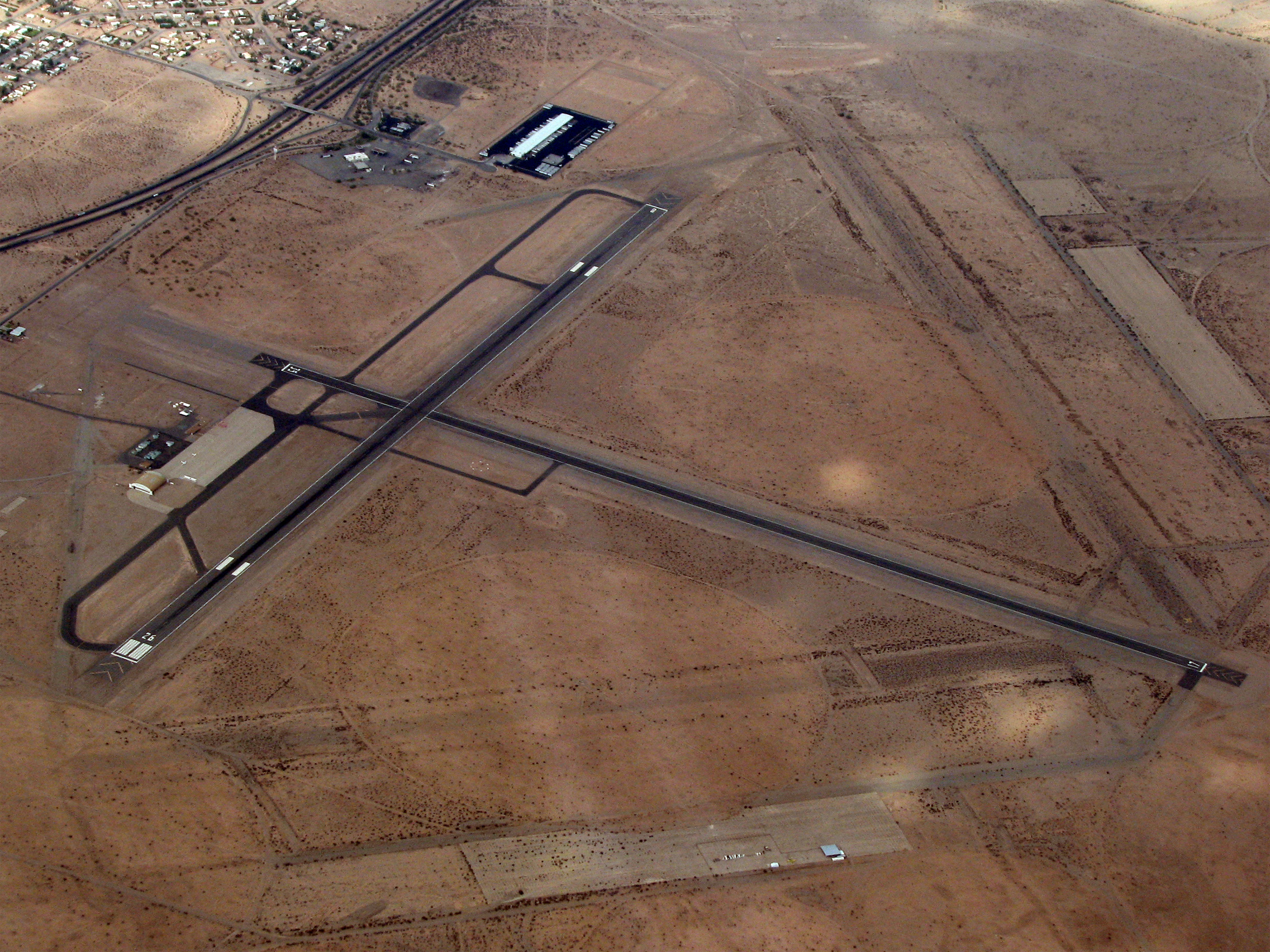 KBLH Blythe Airport, California, from the air.